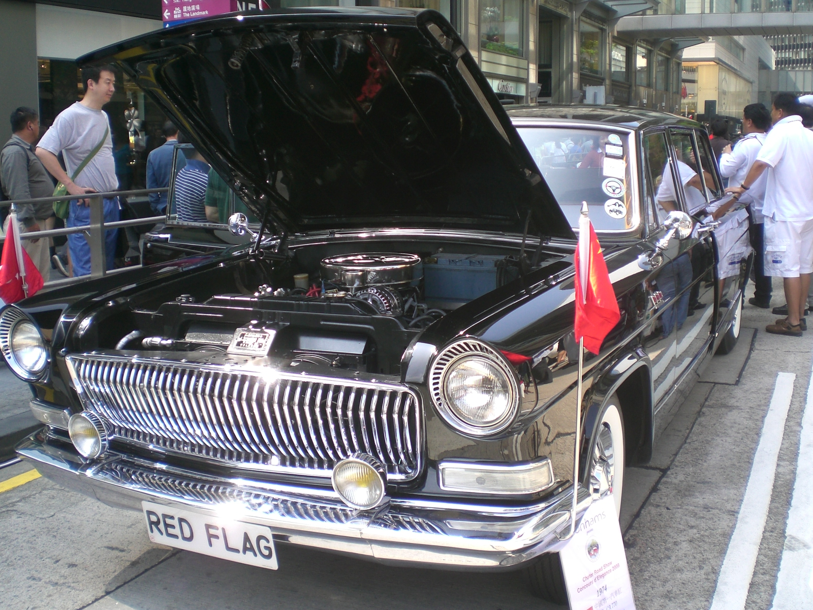 HK Chater Road Show 2008, Classic Car Club of Hong Kong 2008年, 老爺車路演